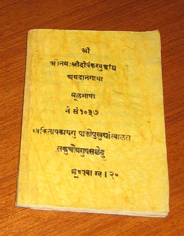 Cover of book on Dipankar Buddha written in Nepal Bhasa and published in 1917 from Kathmandu.